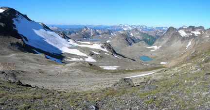 Photograph from the North Cascade Glacier climate project website administered, by myself, Mauri Pelto